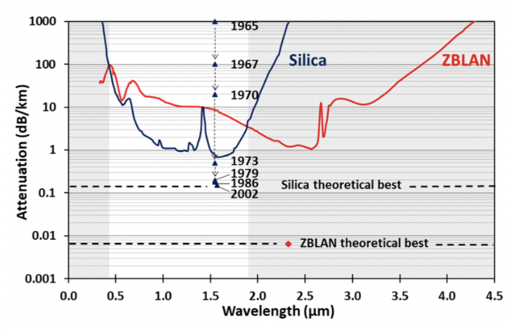 Experimental attenuation curve of low loss multimode silica (Thorlabs, blue line) and ZBLAN (Le Verre Fluoré, red line) optical fibers. Arrows highlight the four orders of magnitude improvement of silica single mode optical fiber attenuation over four decades: 1000 dB/km in 1965 down to 0.18 dB/km (theoretical limit) in 2002. By comparison, ZBLAN optical fibers current attenuation is ~1dB/km and can still be reduced three orders of magnitude to an estimated theoretical best about ~6.4•10-3 dB/km (red diamond). ATTRIBUTION: Cozmuta et al, "Breaking the Silica Ceiling: ZBLAN based opportunities for photonics applications"[1]